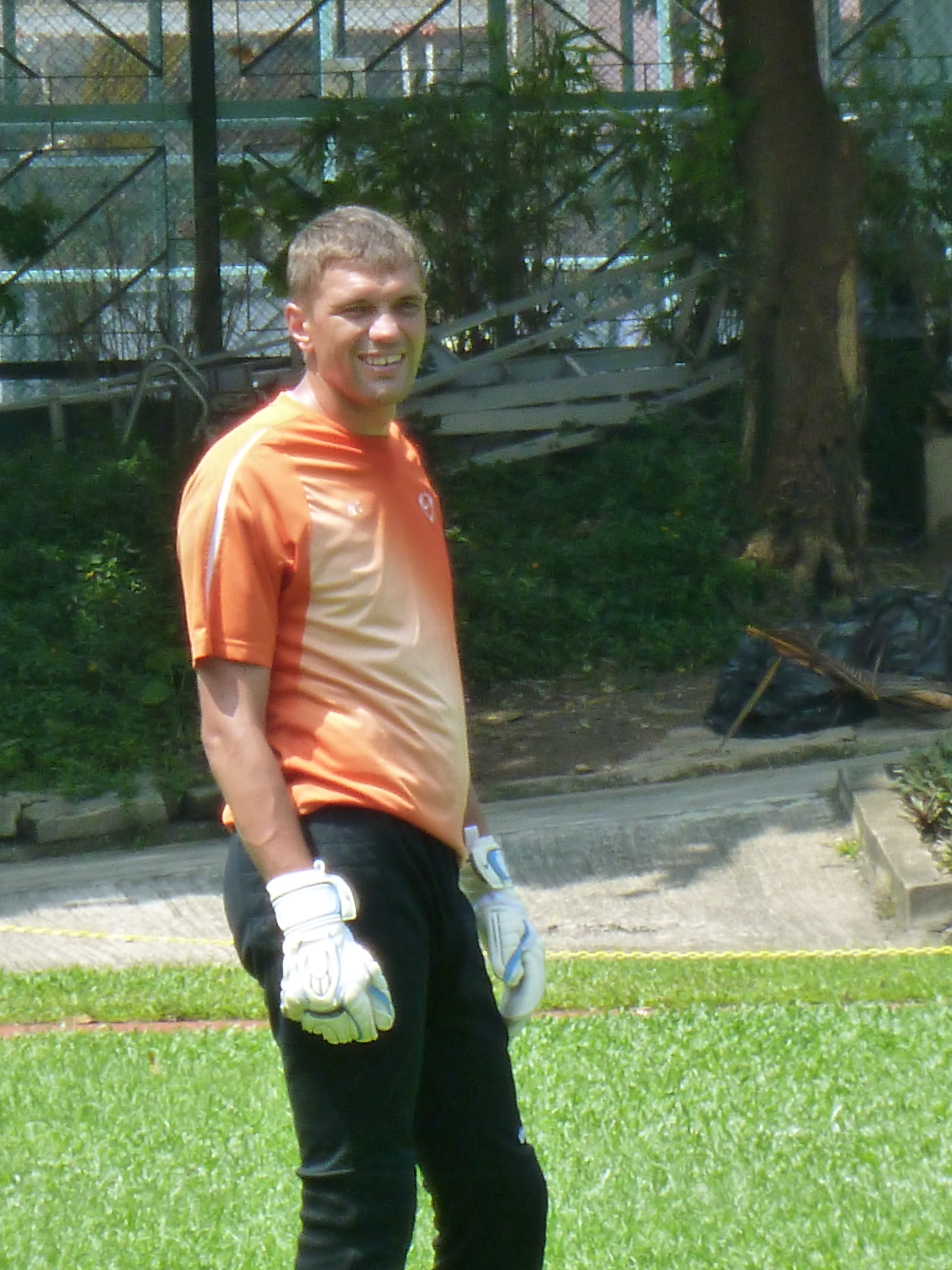 Darko Božović (7 Sept 2013, Friendly Match, Southern vs Happy Valley, Causeway Bay Sports Ground) 中文（香港）: 保素域斯 (7 Sept 2013, 友賽, 南區 vs 愉園, 銅鑼灣(高士威)運動場)